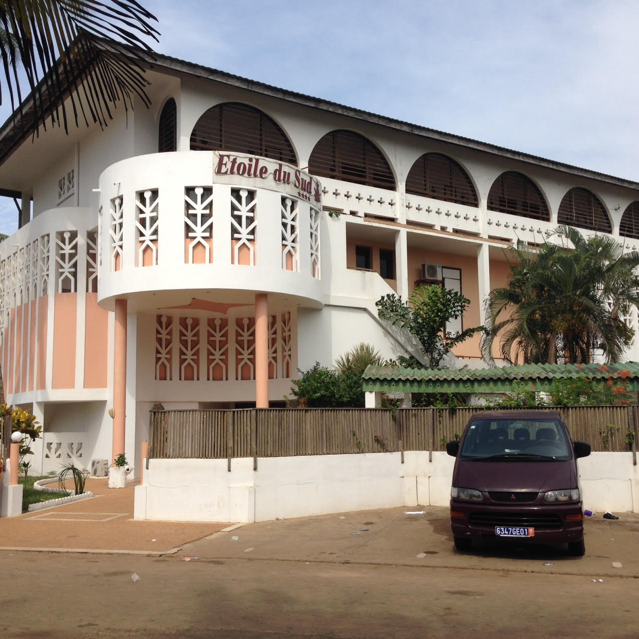 Southern Star Hotel - Grand Bassam, being attacked by terrorists 3/2016